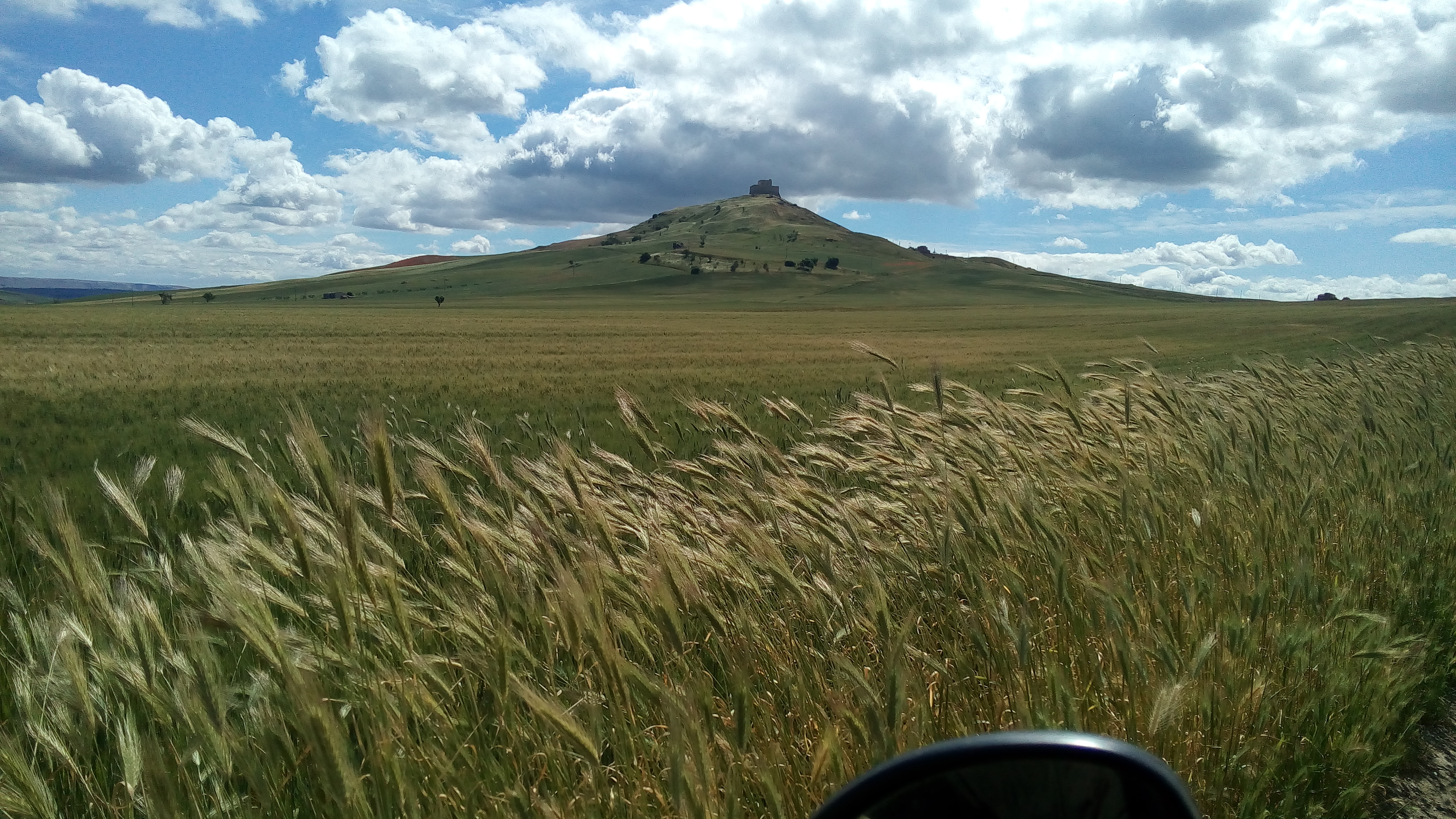 Paesaggio di Monte Serico: sullo sfondo il castello